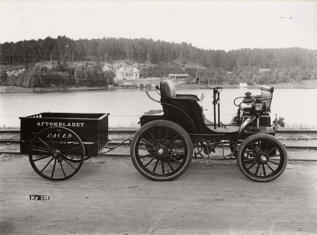 D753: The private car "Northern". Södertälje Workshops started to manufacture this car in 1902, after the American original.